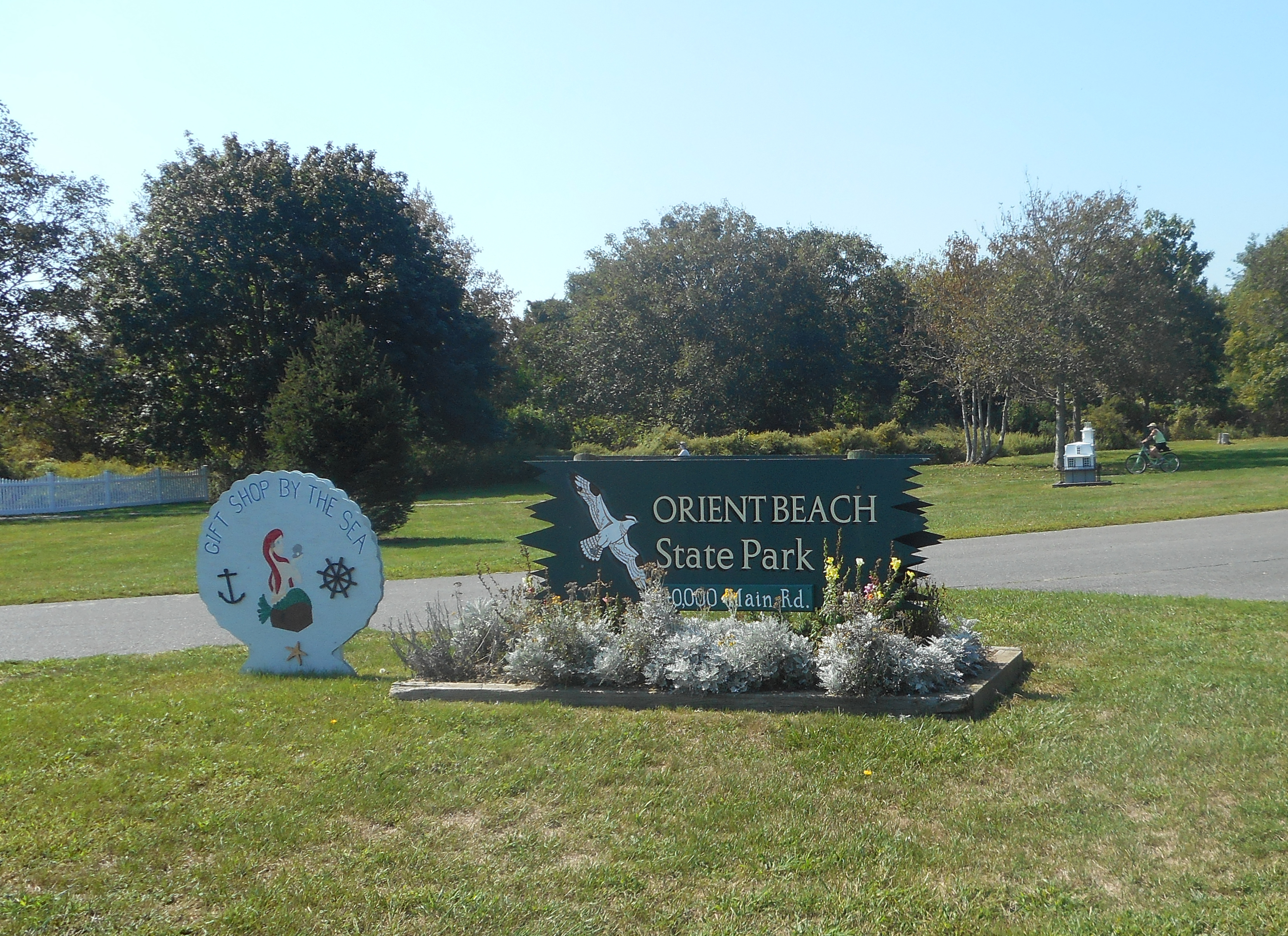 Westbound view of the entrance to Orient Beach State Park off of New York State Route 25 in Orient Point, New York. I had other views of the vicinity of Orient Beach State Park, but they were all rotten.